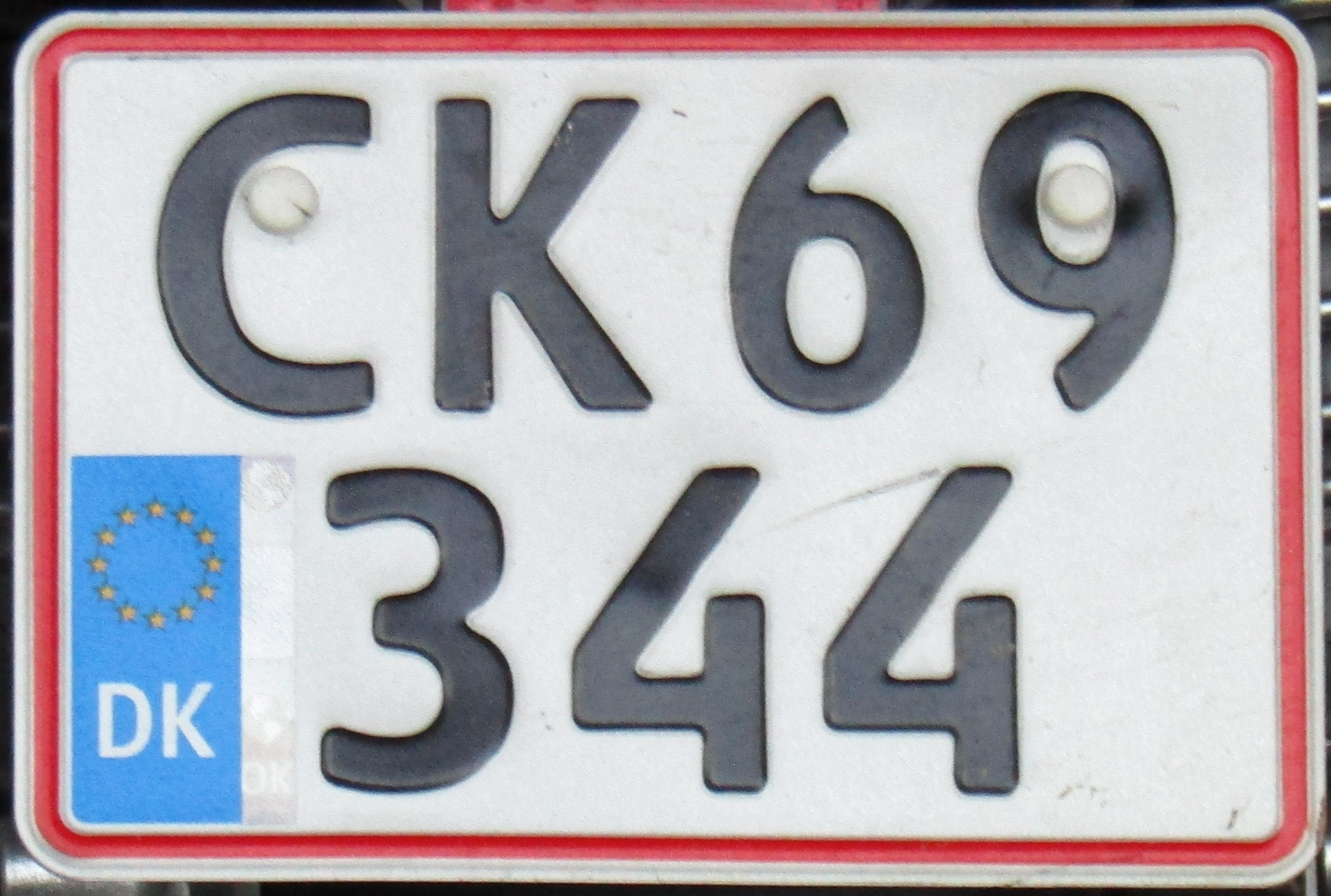 Danish motorcycle plate 2019